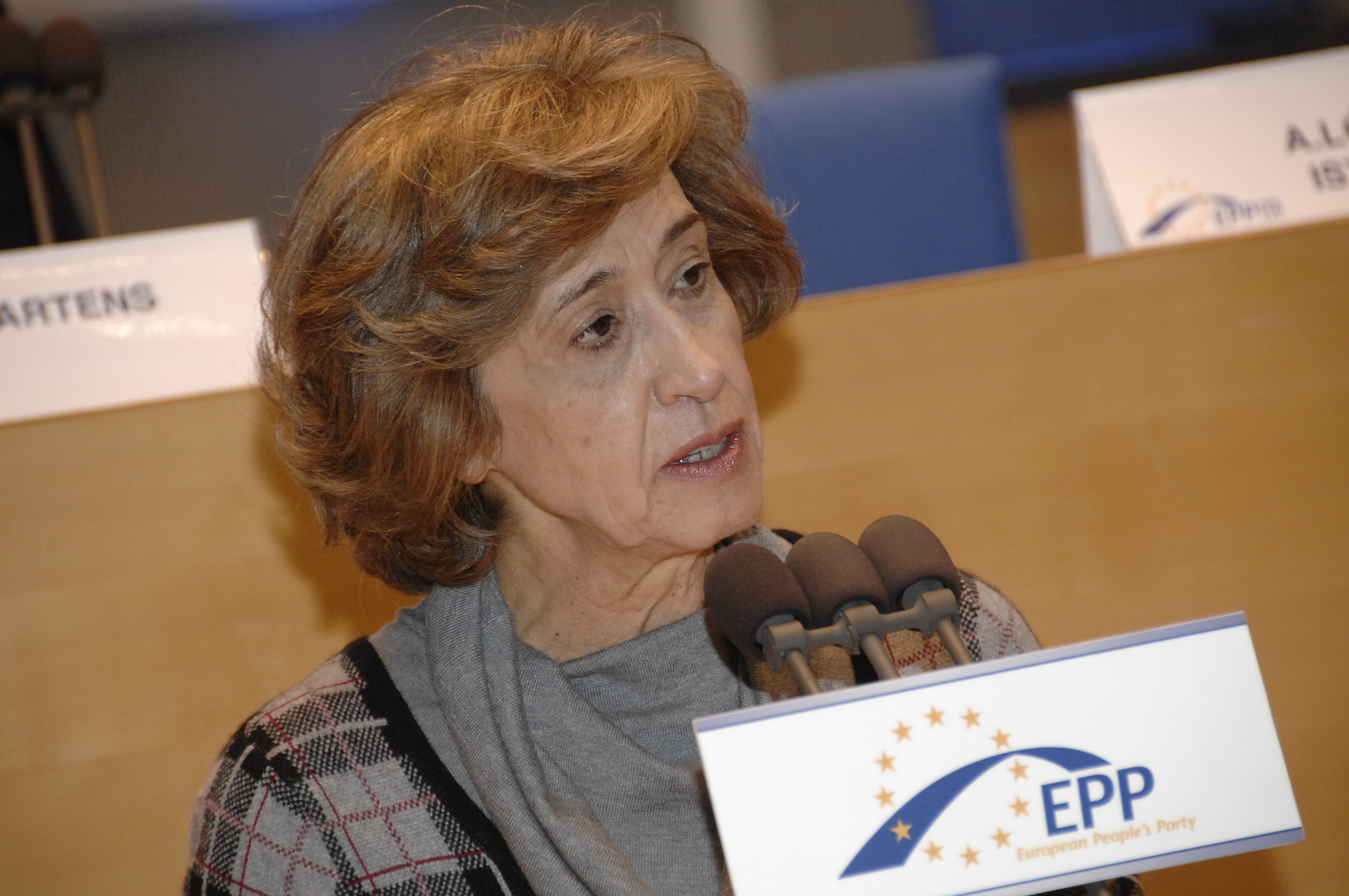 EPP Congress Bonn